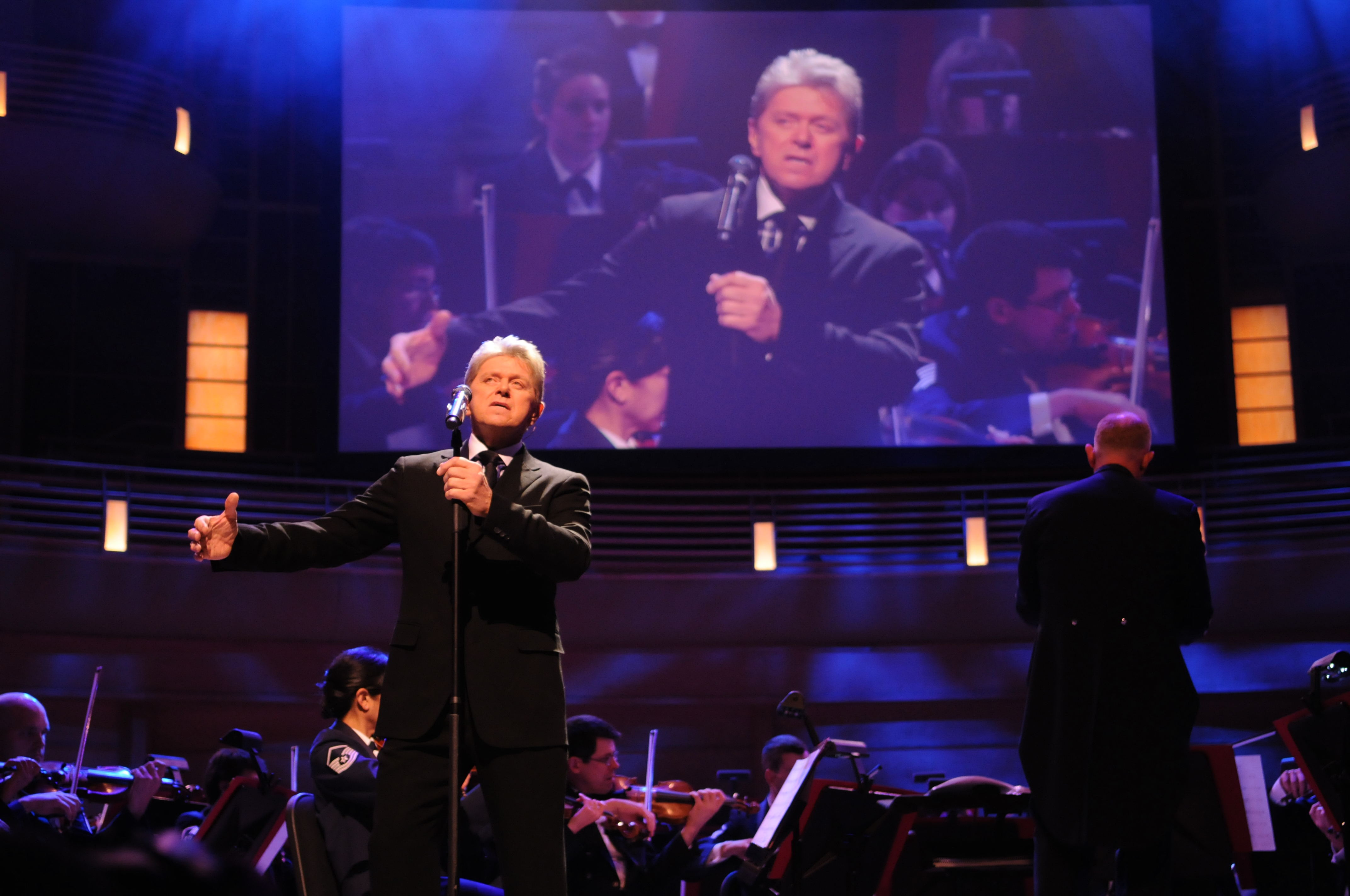 Peter Cetera with the US Air Force Band 2010